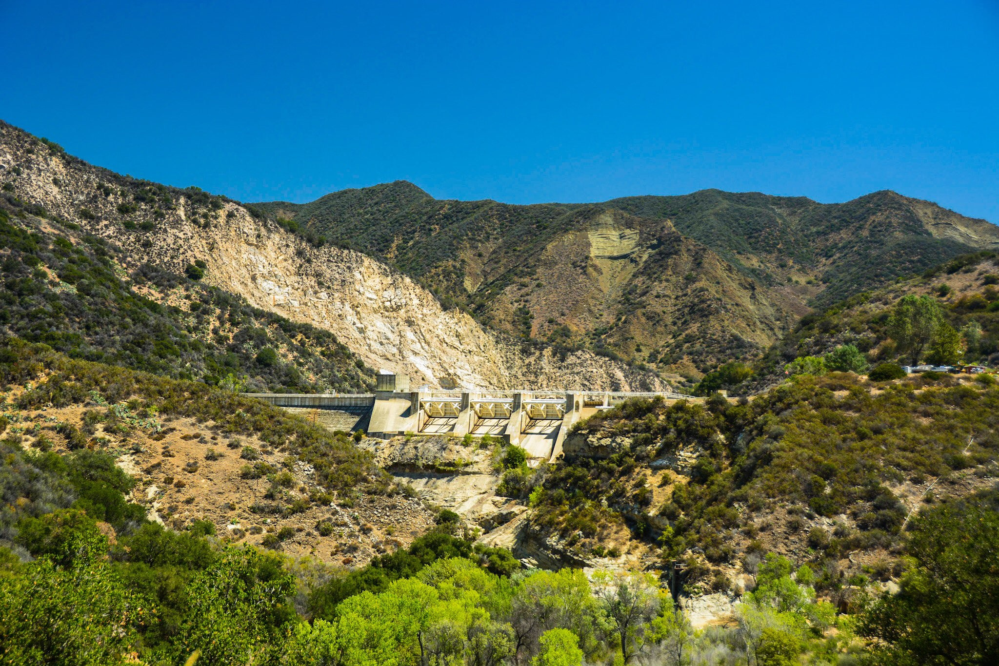 Gibraltar Dam, Paradise Canyon High Road River Trail loop